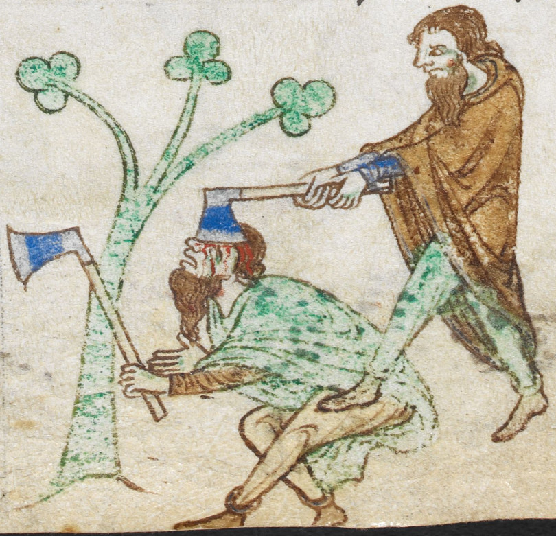 An illustration of two axe-wielding Irishmen from Royal MS 13 B VIII (Topographia Hibernica).